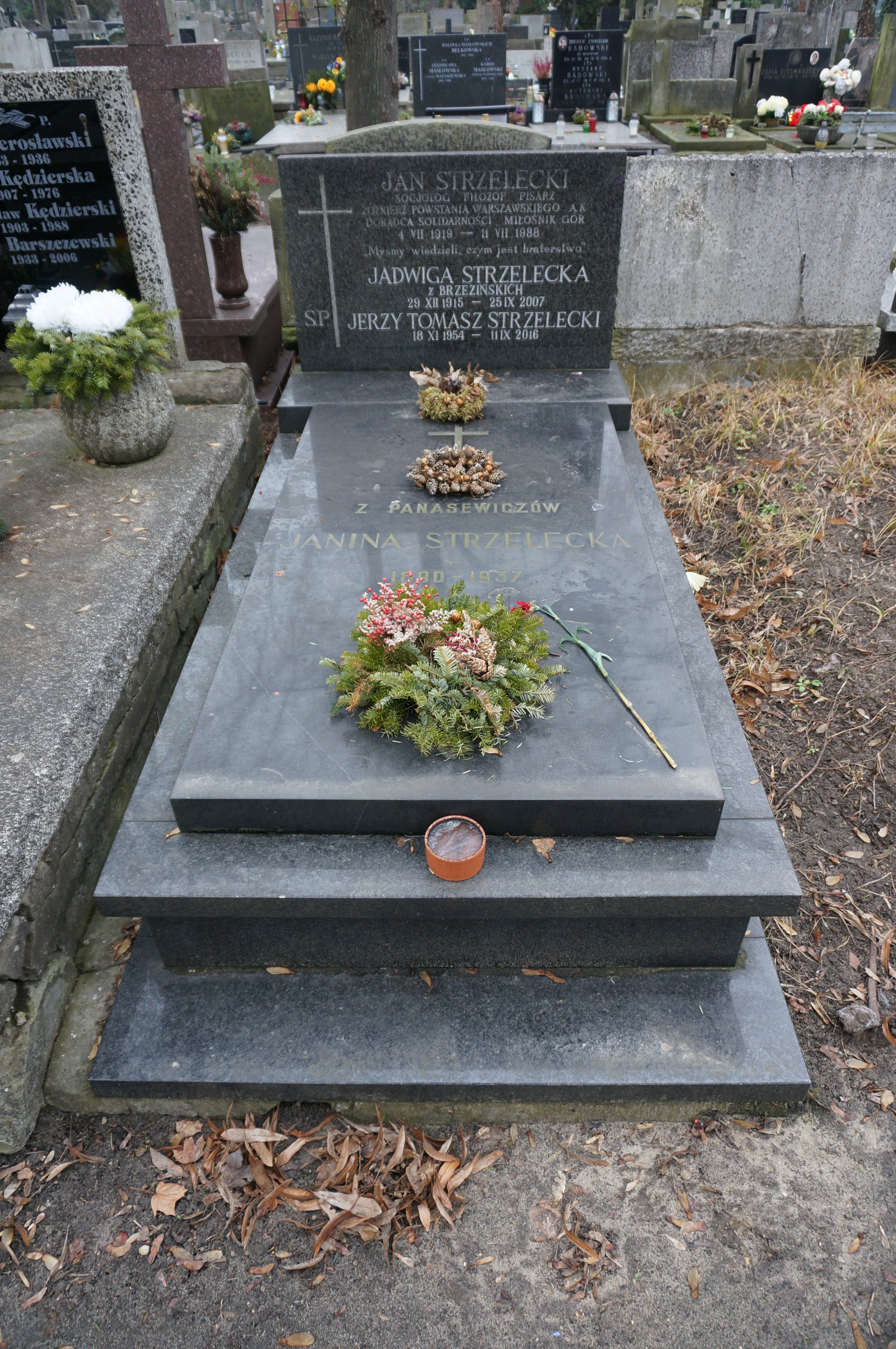 The grave of Jan Strzelecki at the Powązki Cemetery (section 119, row 2, grave 16)